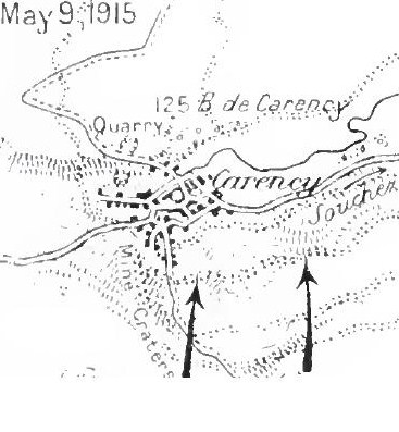 Attack on Carency 1, 9 May 1915